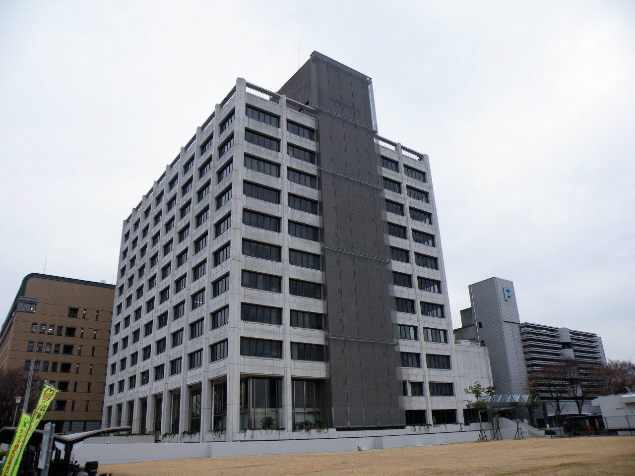 Yokkaichi City Office